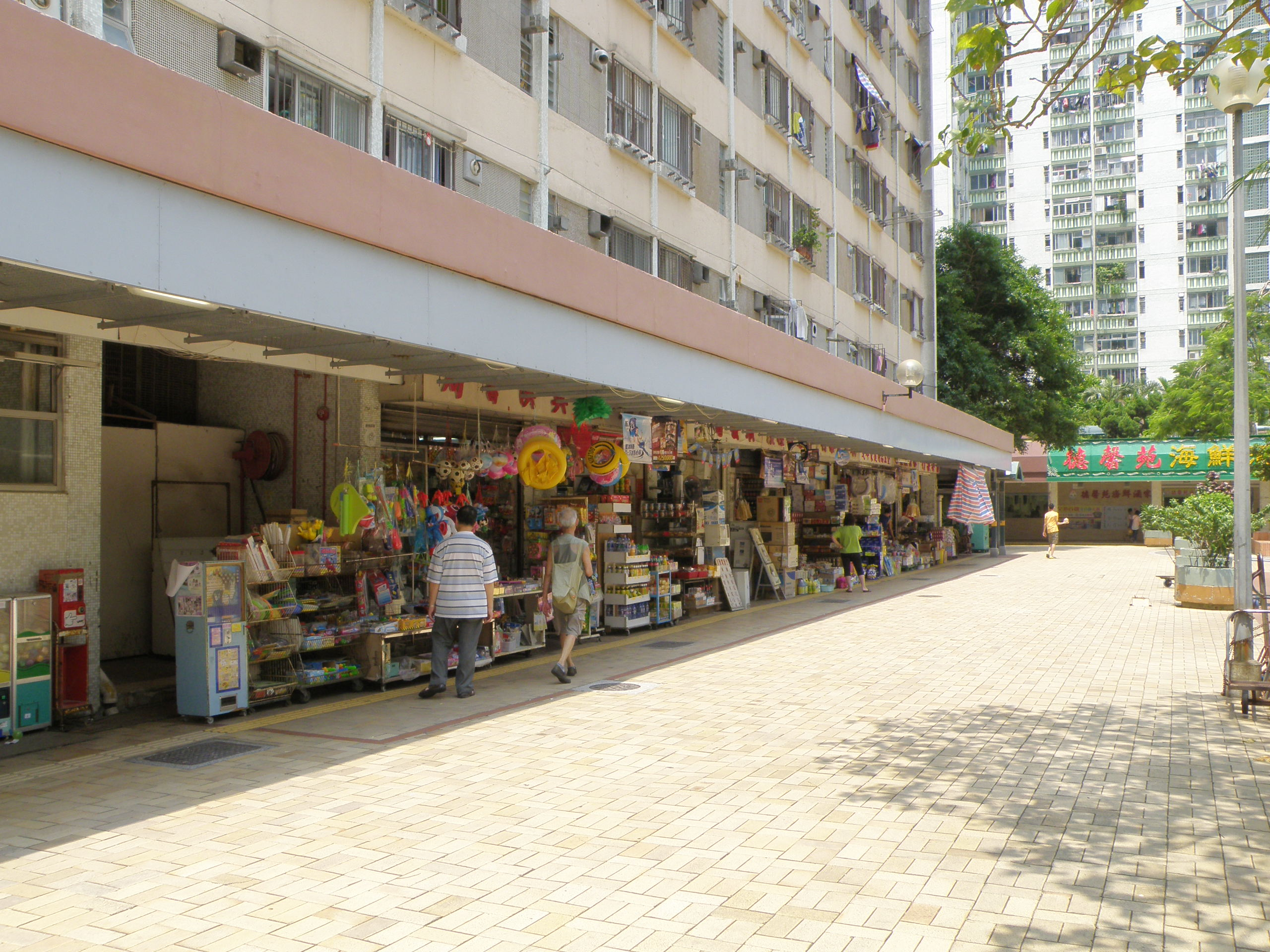 Shun Tin Estate in Sau Mau Ping, Hong Kong.